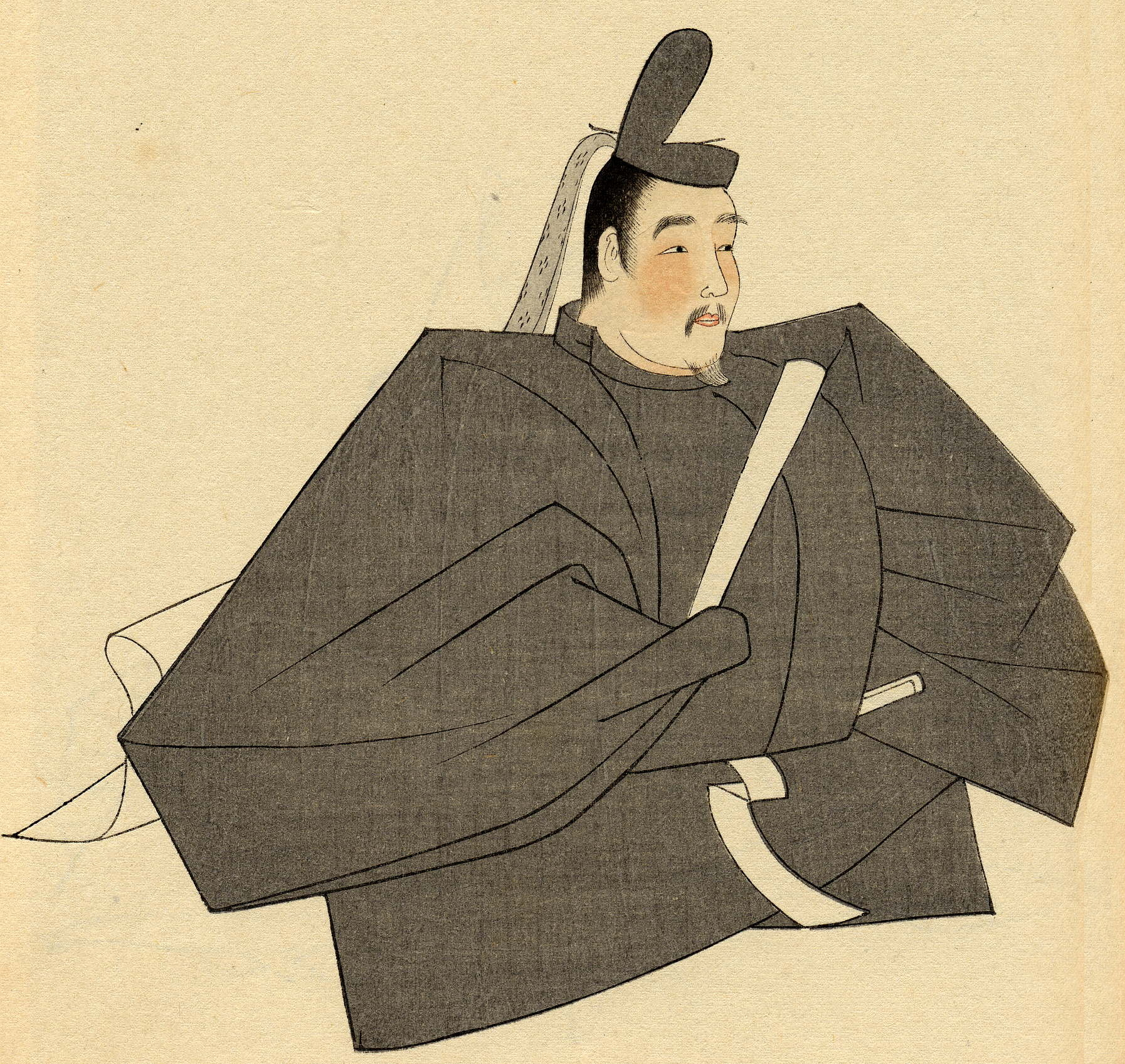 Minamoto no Sanetomo(源 実朝, 1192 –1219) was the third shogun of the Kamakura shogunate and the last head of the Minamoto clan of Japan. This picture has drawn by priest Goshin(豪信）.